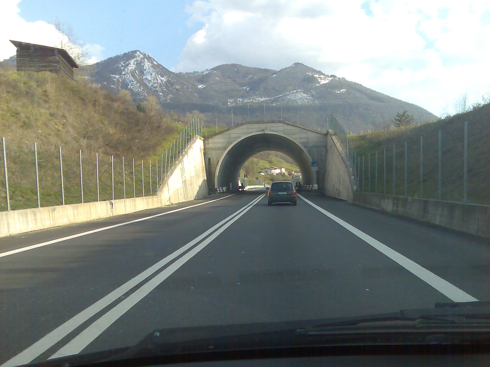 The SP BS 510 Sebina Orientale (former national road SS 510) near the exit for Sulzano. It's one of the most important two-lane freeways in northern Italy, connecting A4 toll highway to the ski resorts of Val Camonica.